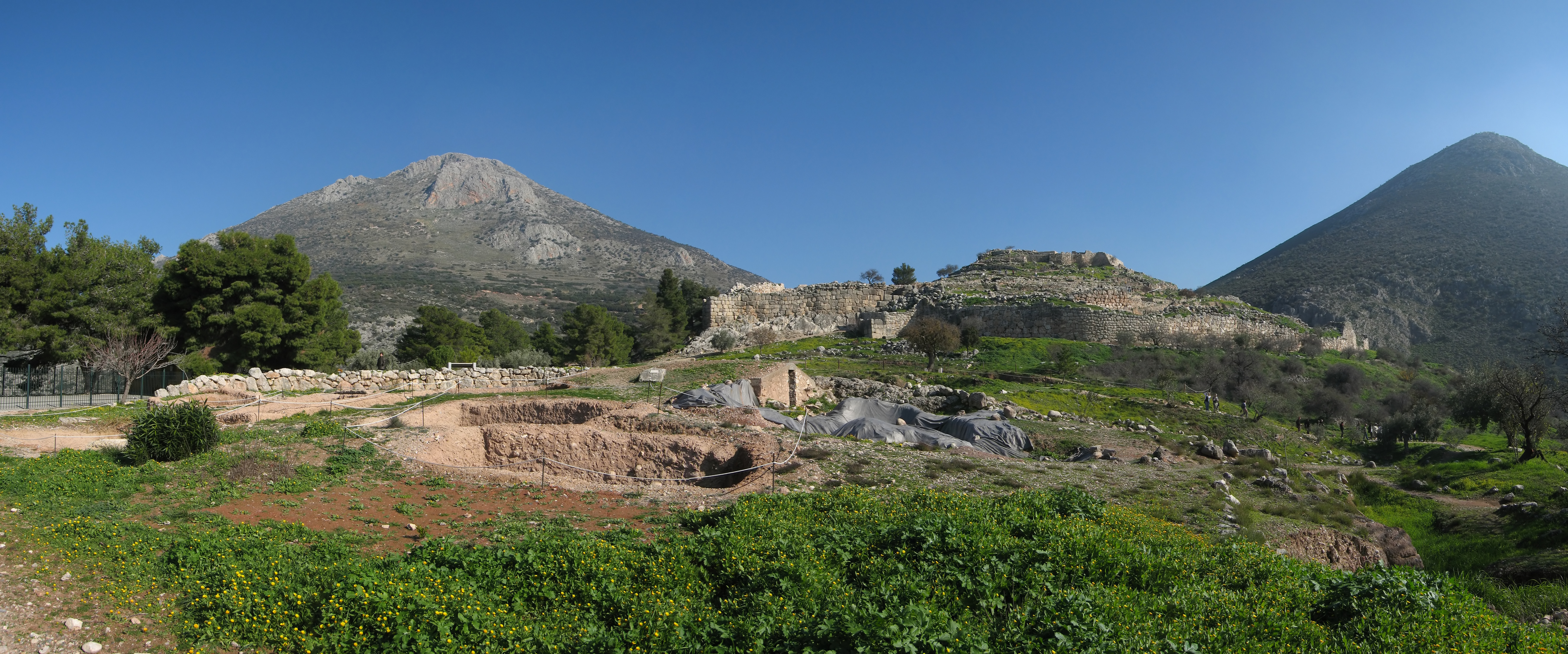 The antique city of Mycenae, in Greece